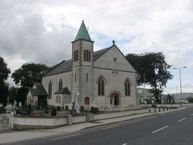 St. Patrick's Church, Shercock, Co. Cavan Catholic church at the west end of the main street. Erected 1838 though the tower is clearly later